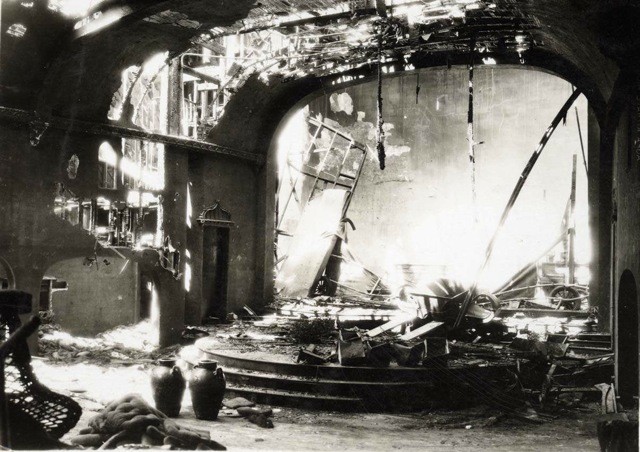 Image of the Golden Bough fire of 1935 in Carmel-by-the-Sea, California.